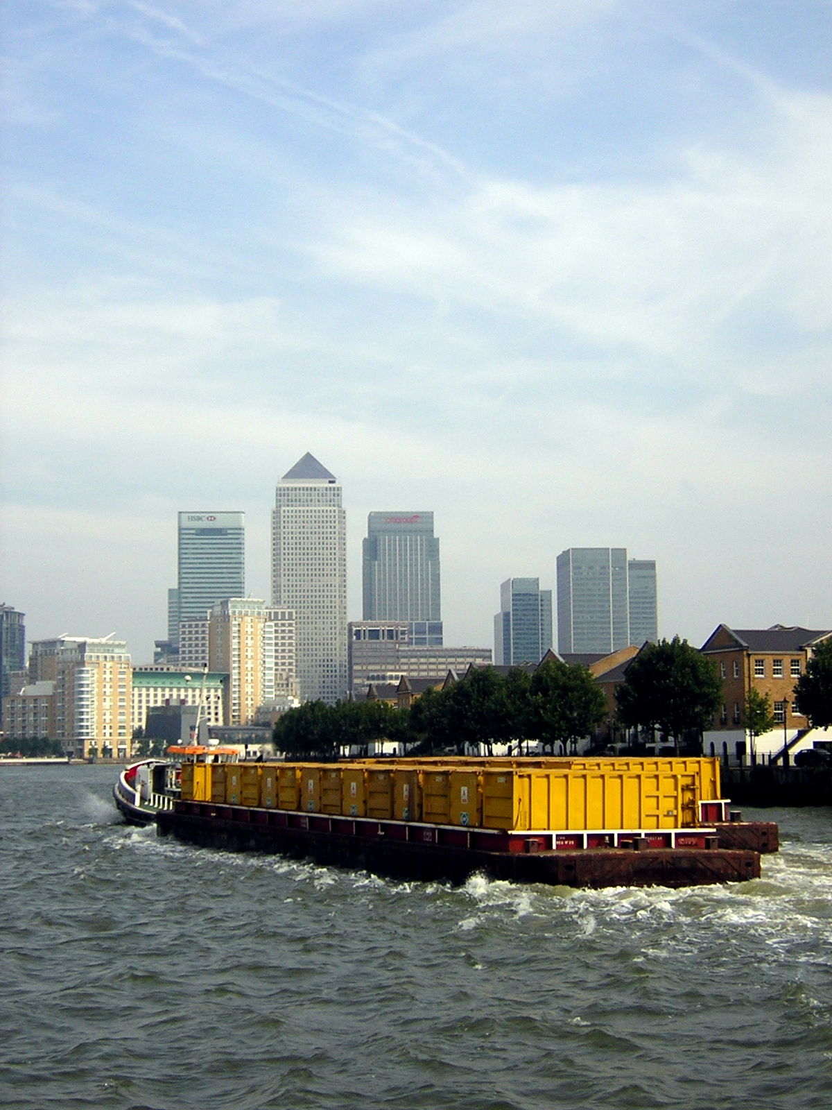 Thames, London, UK